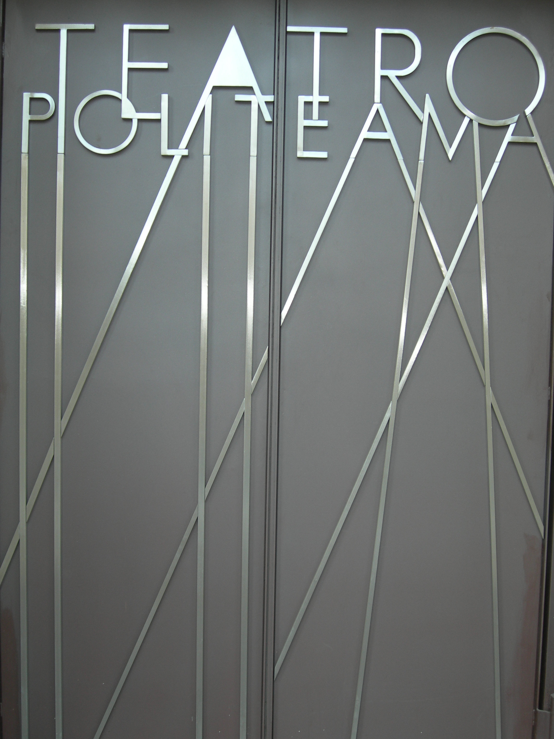 Teatro Politeama